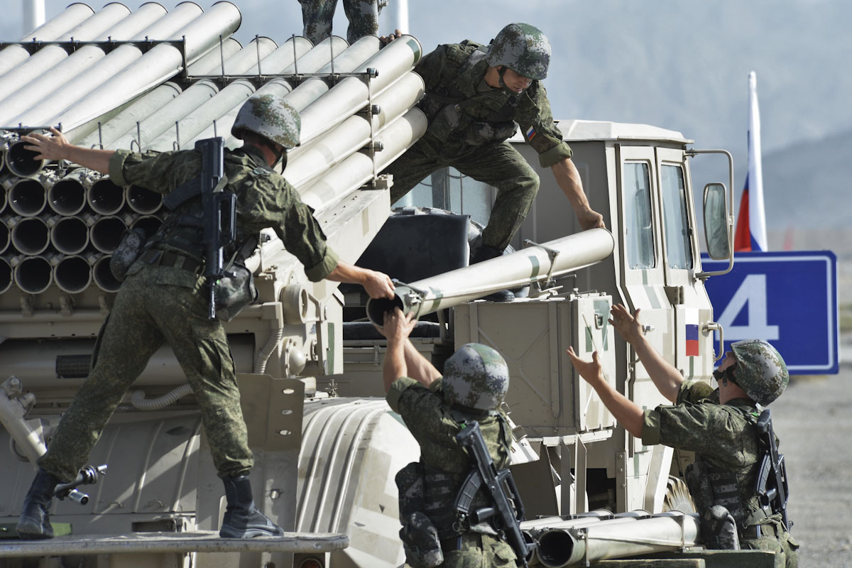 Gunsmith Master competition in China. Type 81 122mm self-propelled rocket launcher on Hongyan OQ261 chassis.